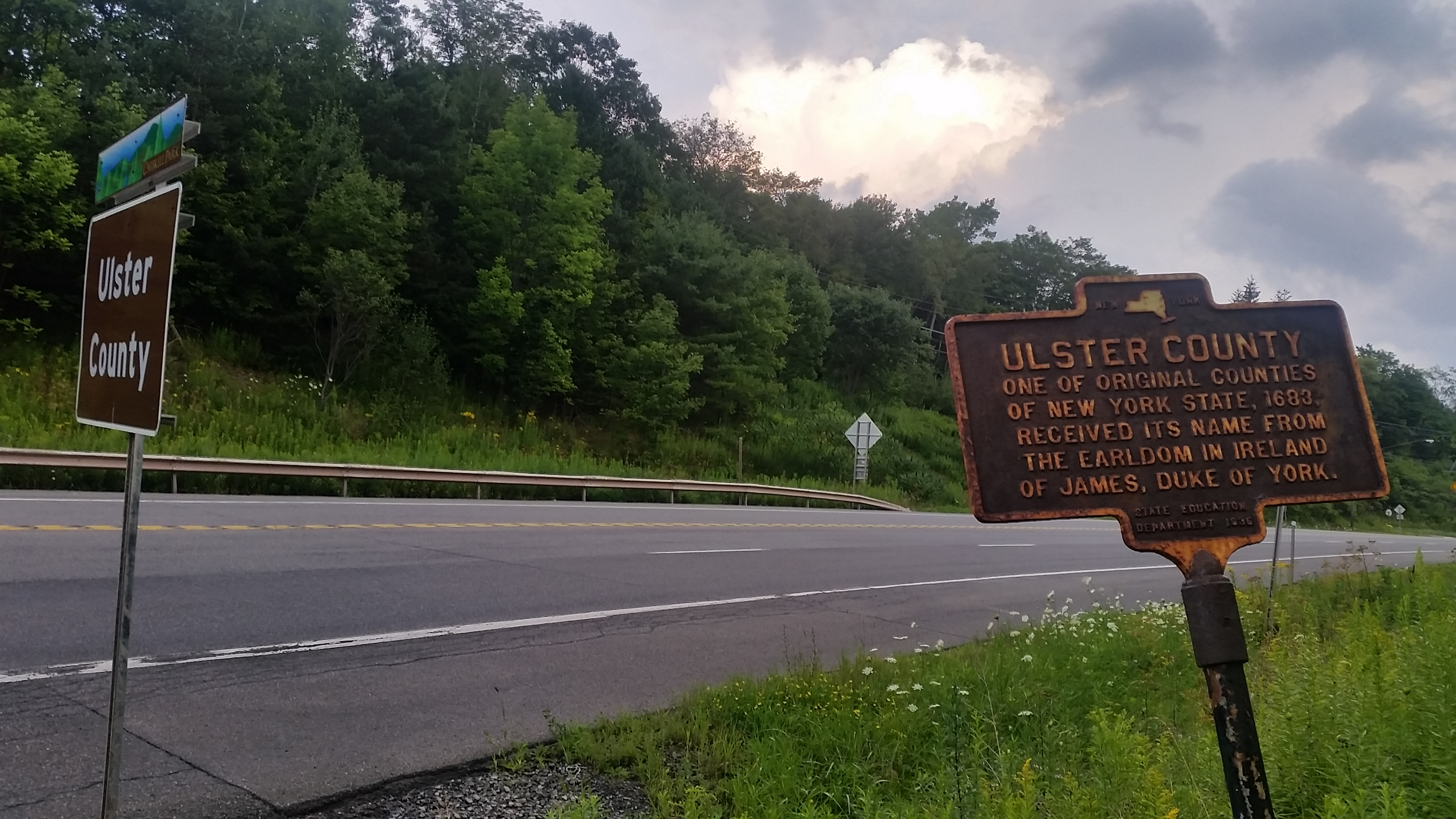 New York State historical marker for entrance to Ulster County, NY along NY State Route 28